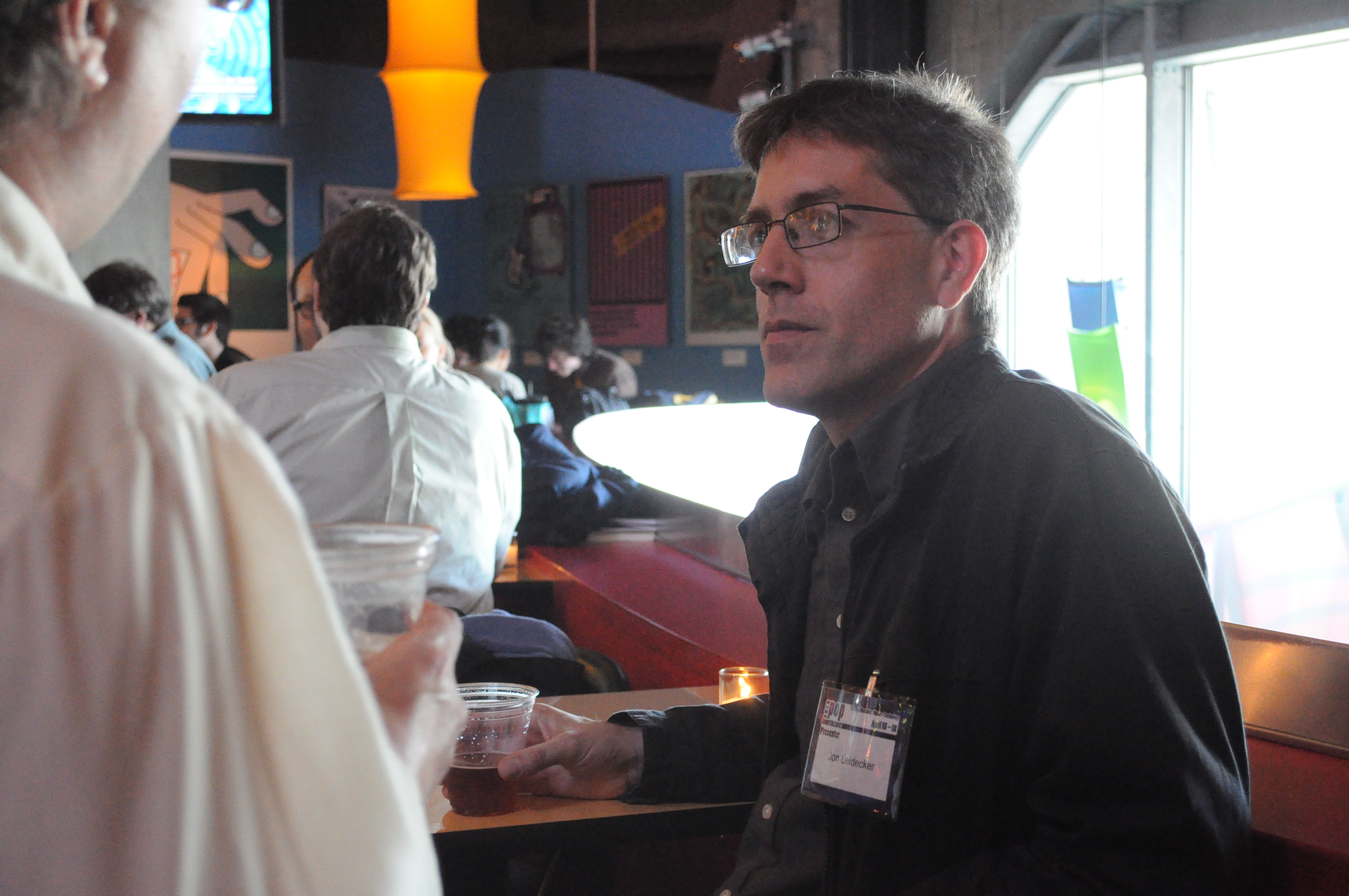 Jon Leidecker (a.k.a. "Wobbly") at the opening reception of the 2010 Pop Conference, EMPSFM, Seattle, Washington.